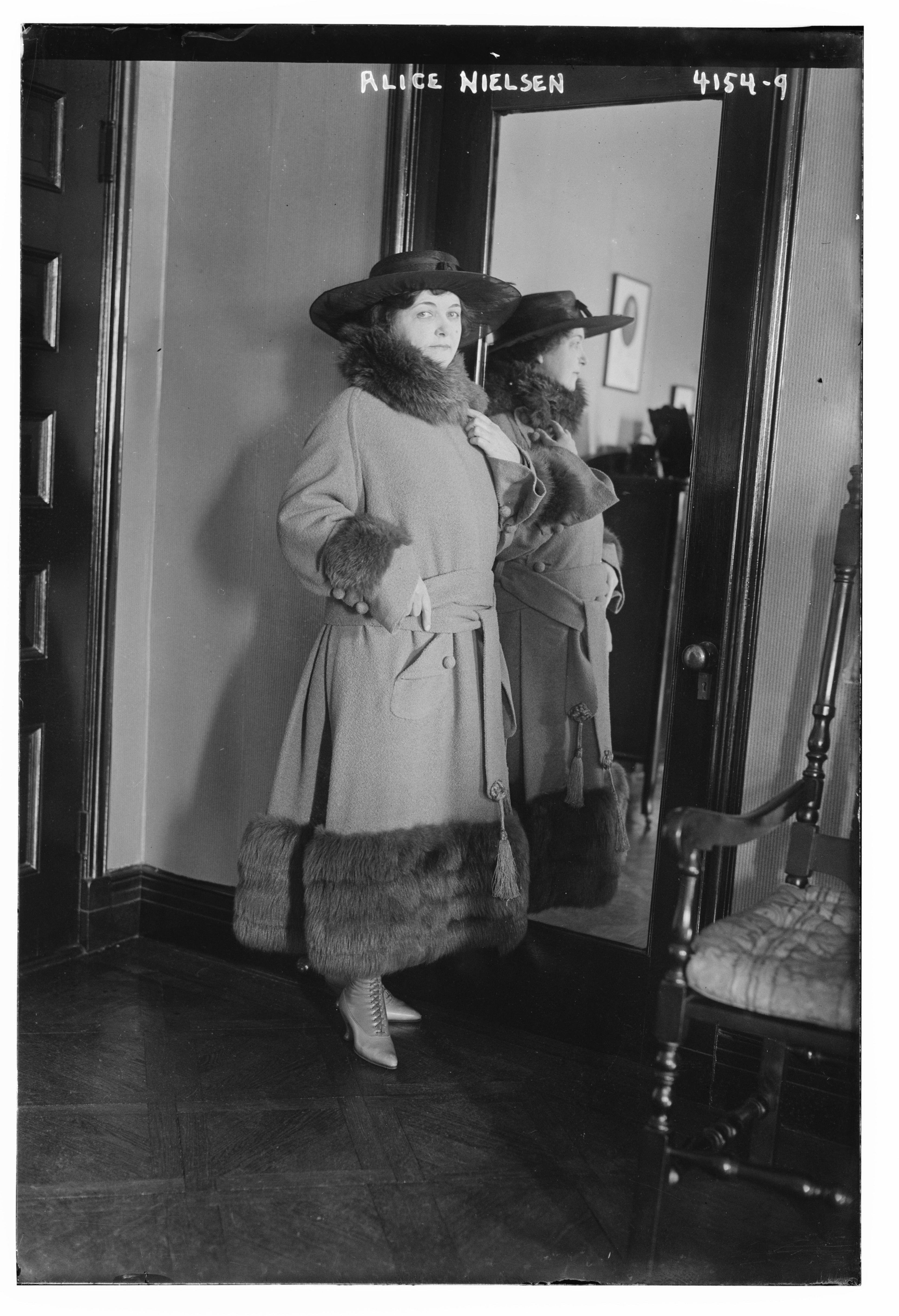 Alice Nielsen in 1917